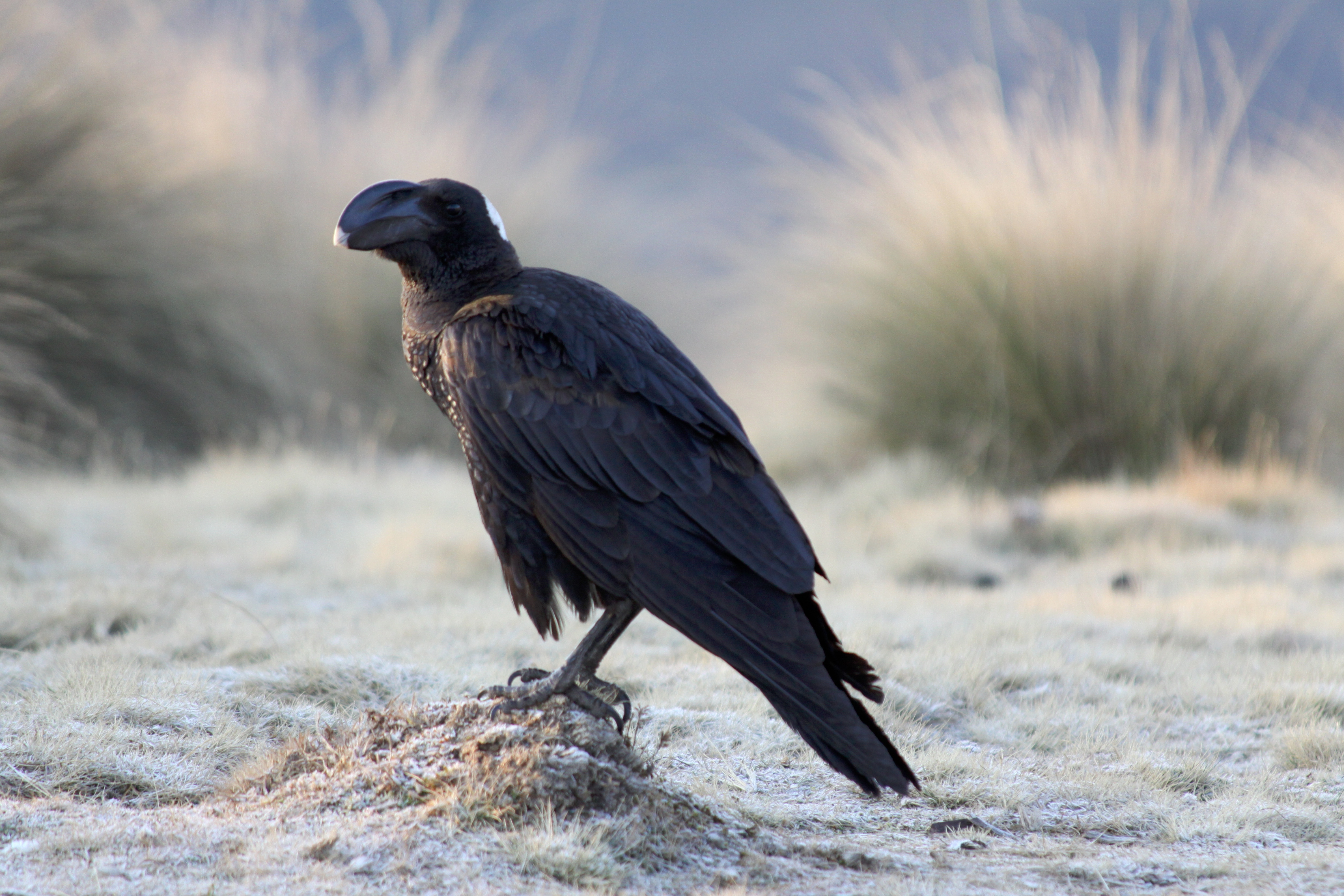 Corvus crassirostris, photographed in Ethiopia